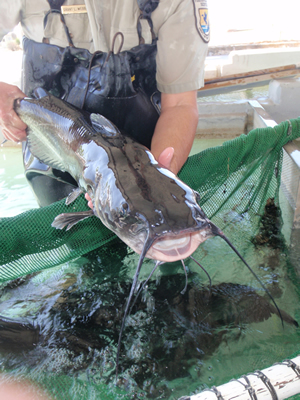 Channel catfish being held by USFWS employee